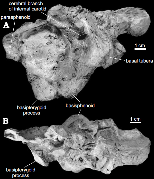 A predatory archosaur Smok wawelski gen. et sp. nov., Lisowice (Lipie Śląskie clay−pit), Late Triassic (lates Norian–early Rhaetian). Par− tially preserved braincase, ZPAL V.33/15, in left lateral (A) and dorsal views (B). Note that the right exoccipital−opisthotic, which is preserved as a separate piece, is not shown in the photo but is depicted in the reconstruc− tion drawing in Fig. 2D.